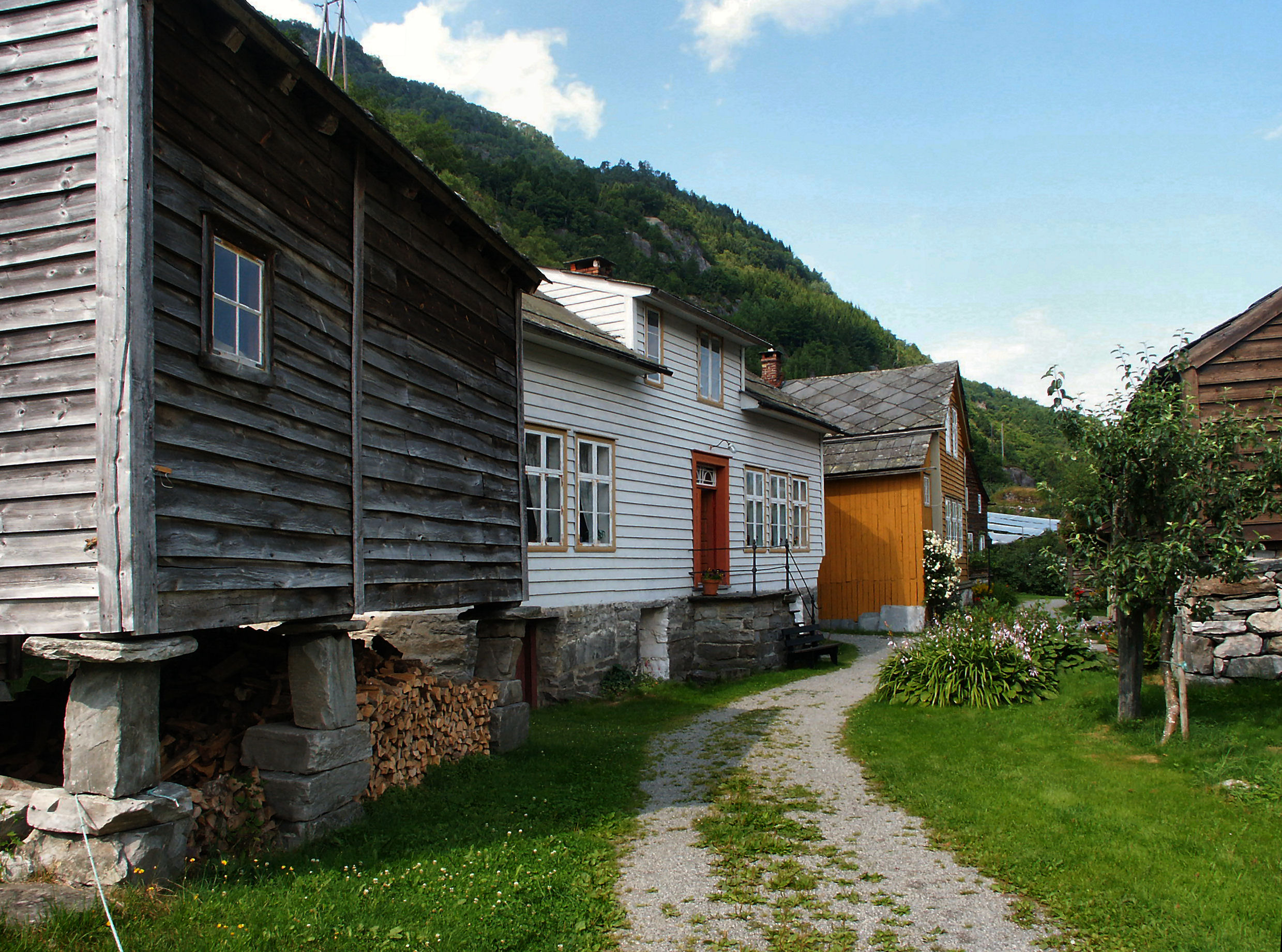 Agatunet, collective farmyard, Sørfjorden in Hardanger, Ullensvang municipality, Hordaland county, Norway.